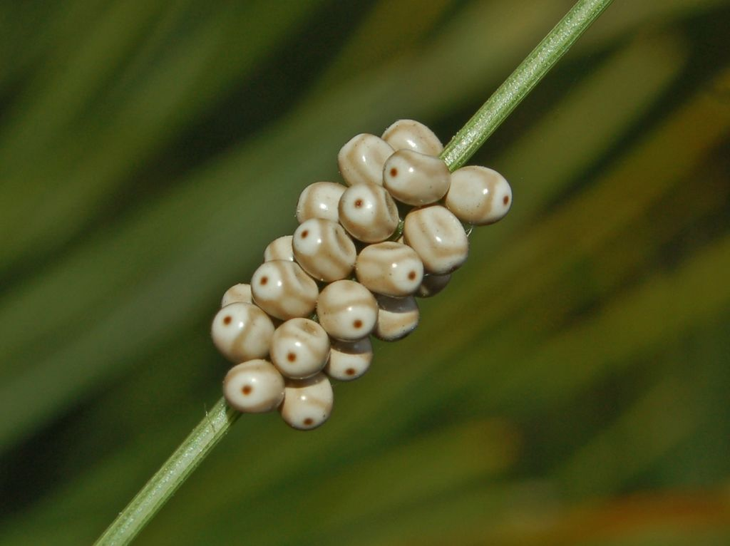 Macrothylacia rubi